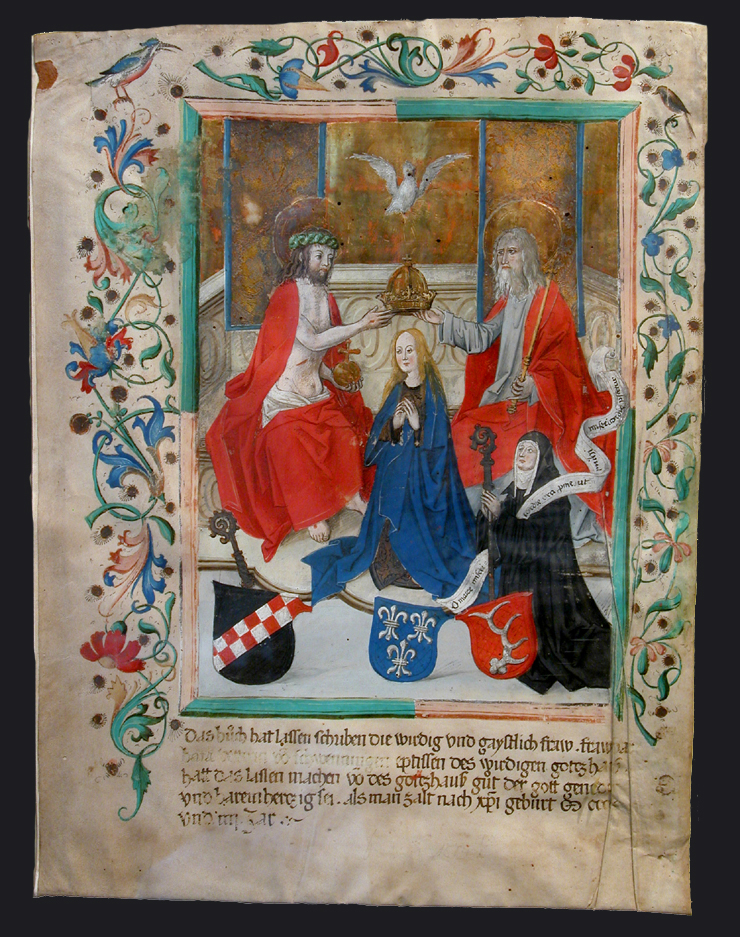 Commissioned by Abbess Barbara Vetter von Schwenningen. "A large miniature from a Missal showing the Coronation of the Virgin by Christ and God the Father, before the female donor, the Abbess Barbara Vetter von Schwenningen for the Cistercian convent at Oberschönenfeld. She bears a scroll inscribed with a petition to the Virgin: O mater misericordie ora pro me ut michi misericordia prestetur (O Mother of Mercy, pray for me that I may obtain forgiveness). The coats of arms of the donor’s mother and father and one of the Cistercian order are represented below."